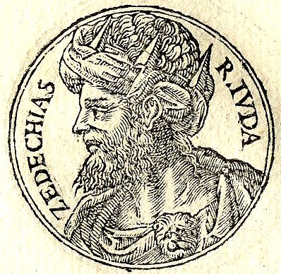 Zedekiah was the last king of Judah before the destruction of the kingdom by Babylon.